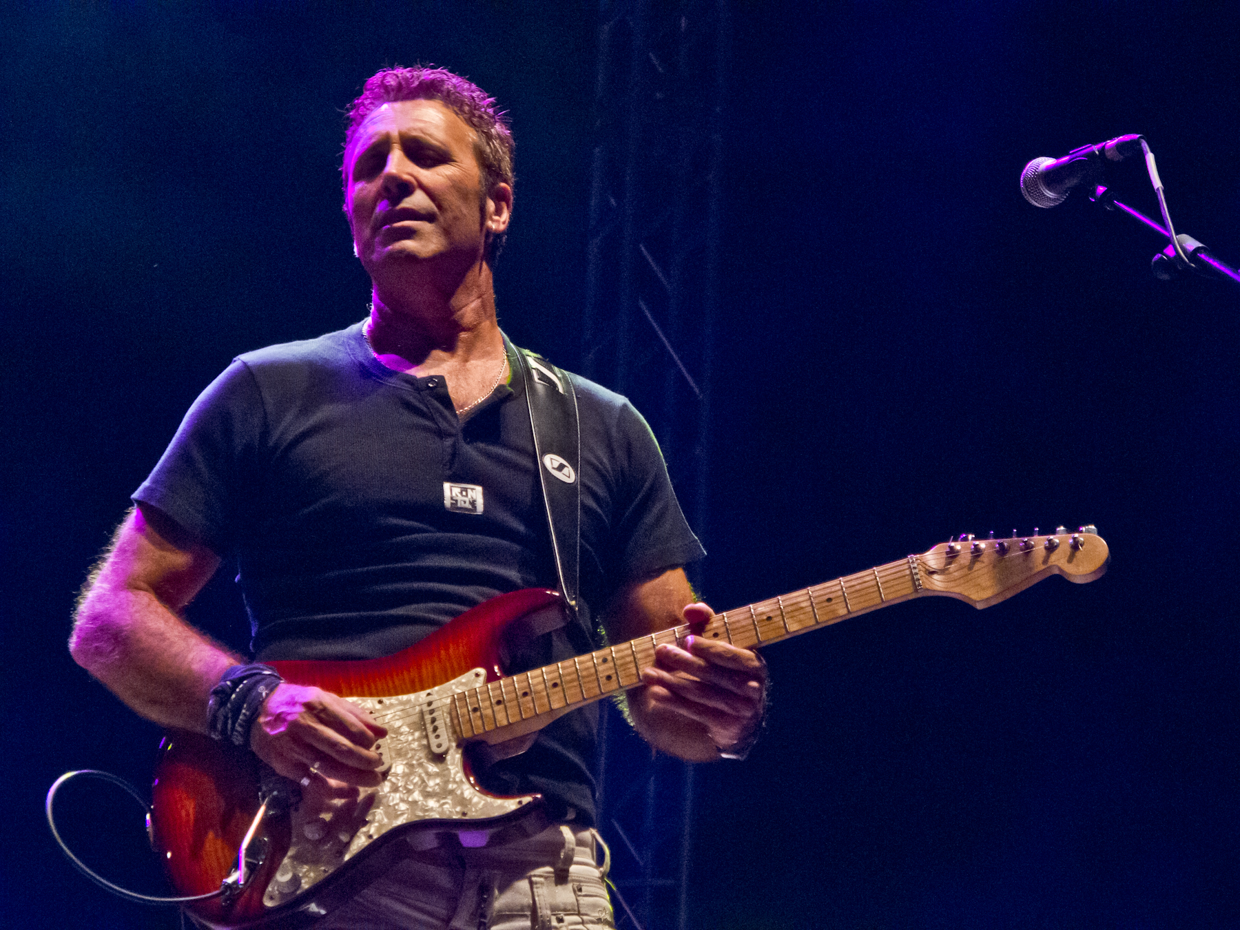 Burning performing live in 2012.